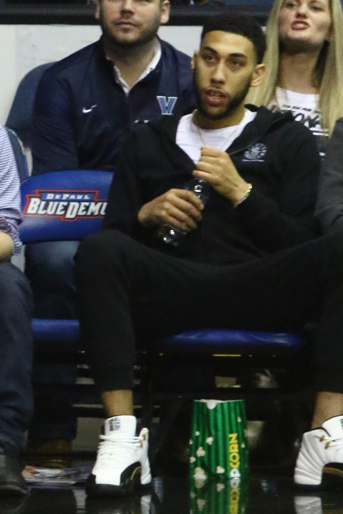 Denzel Valentine sitting courtside at Allstate Arena